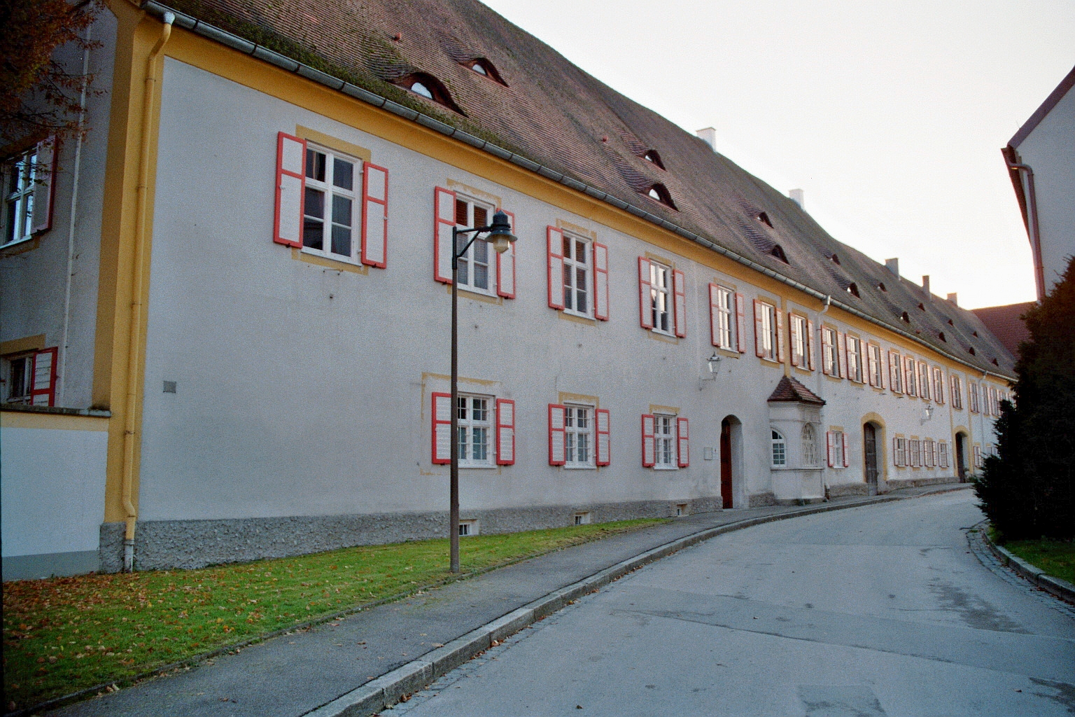 Gumppenberg Castle (Schloss Gumppenberg) in Pöttmes, District Aichach-Friedberg, Bavaria, Germany. The castle is a listed cultural heritage monument.